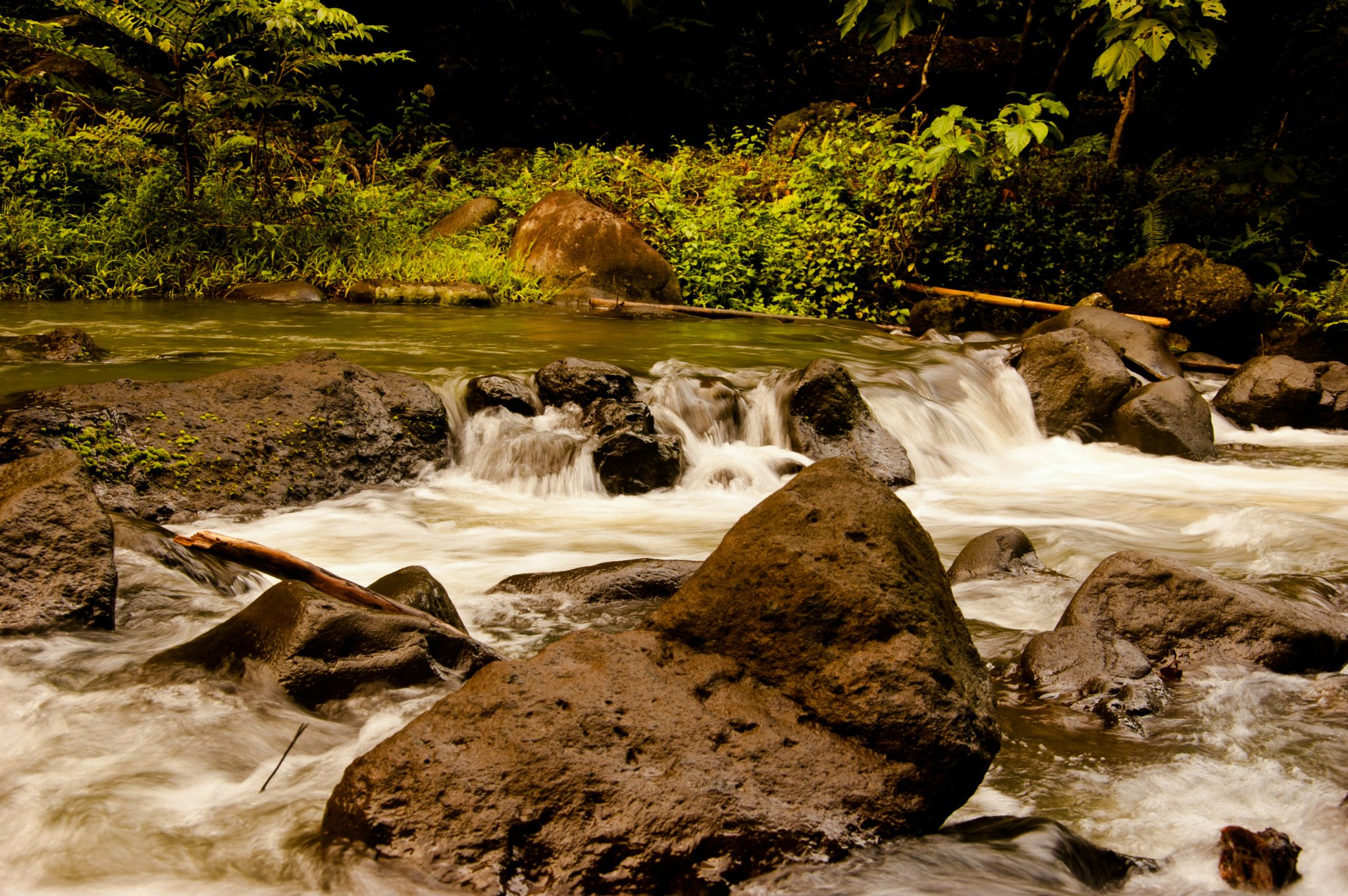 Rapids on - Pangil River